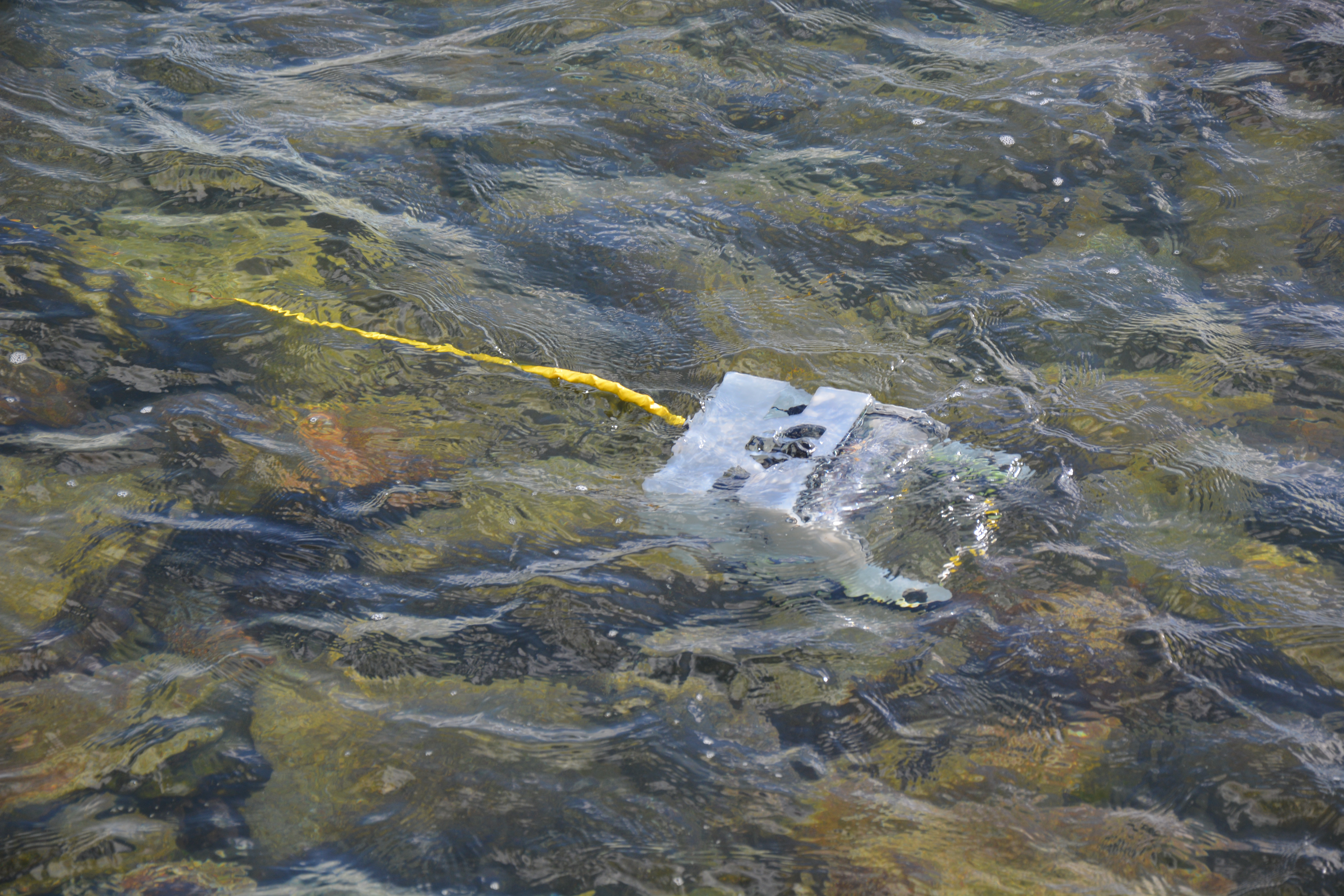 Open ROV build by the Explore Foundation